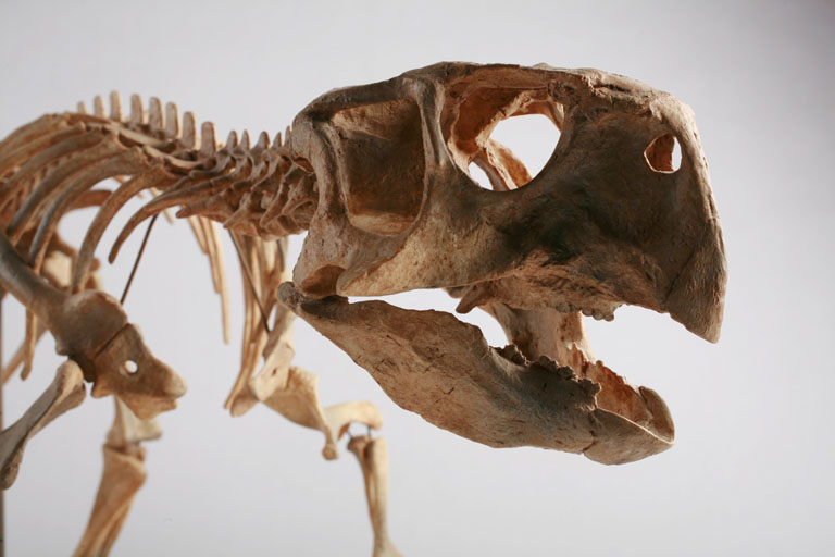 A Psittacosaurus skeleton cast in the permanent collection of The Children’s Museum of Indianapolis.